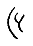 An nsibidi character for "welcome" as recorded by Elphinstone Dayrell.